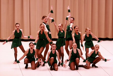 A competitive dance group strikes the ending pose at the conclusion of their competition performance. Dance groups such as this are typically formed from classes of dance students. The performers in this image belong to a tap dance class at Westside Dance and Gymnastics Academy in Tigard, Oregon. The photo was taken by Jim Lamberson at a regional competition conducted by American Dance Awards (ADA)—a competition production company that conducts dance competitions nationwide—in Portland, Oregon.